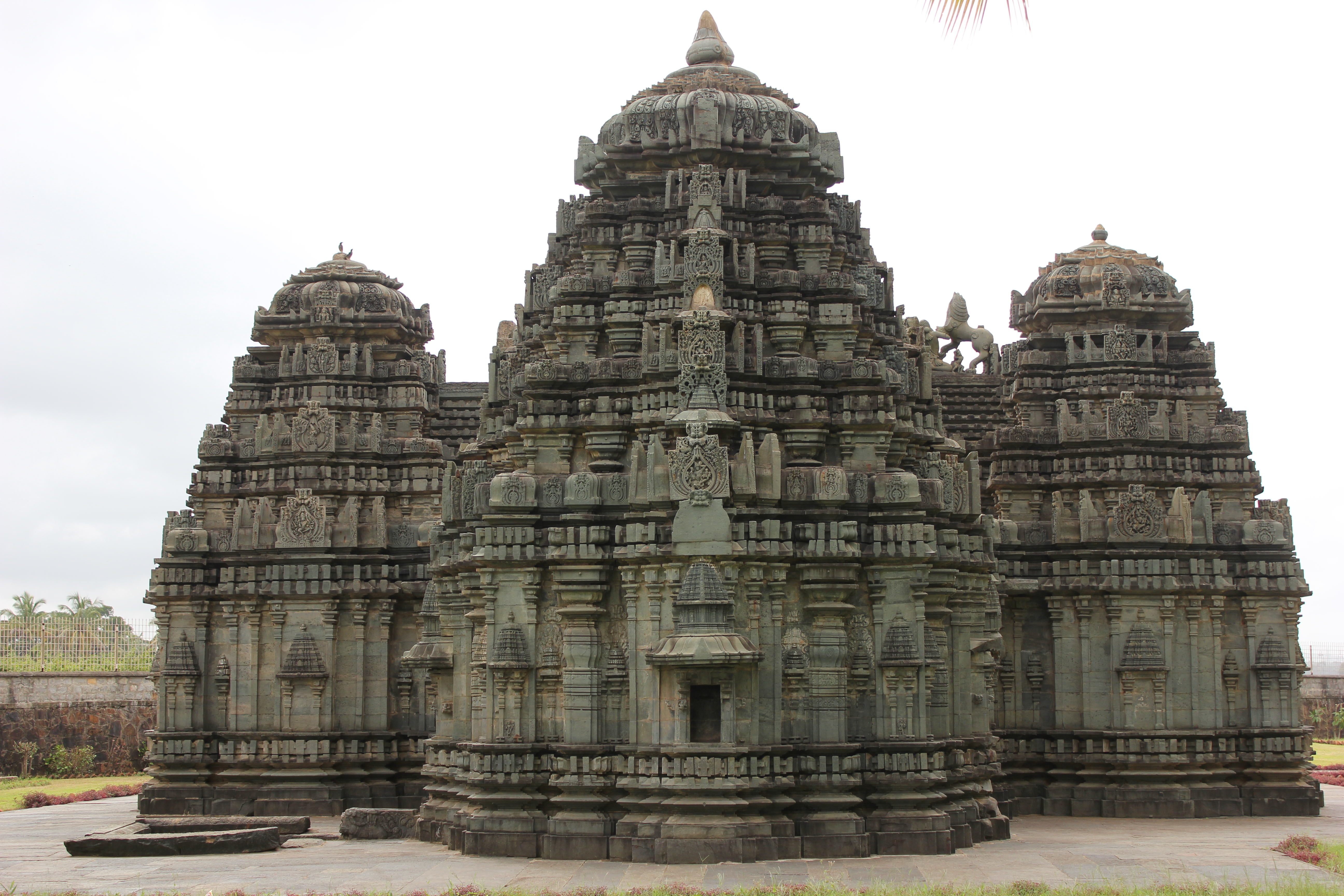 This photograph was taken by me at the Kedareshvara temple (also spelt Kedaresvara or Kedareshwara) in Balligavi (also called variously as Belgami, Belligave, Balligamve and Ballipura in ancient inscriptions) in the Shimoga district of Karnataka state, India. The temple was built in the late 11th century by the Western Chalukya Empire rulers with architectural updates into the first half of 12th century during the rule of Hoysala Empire.